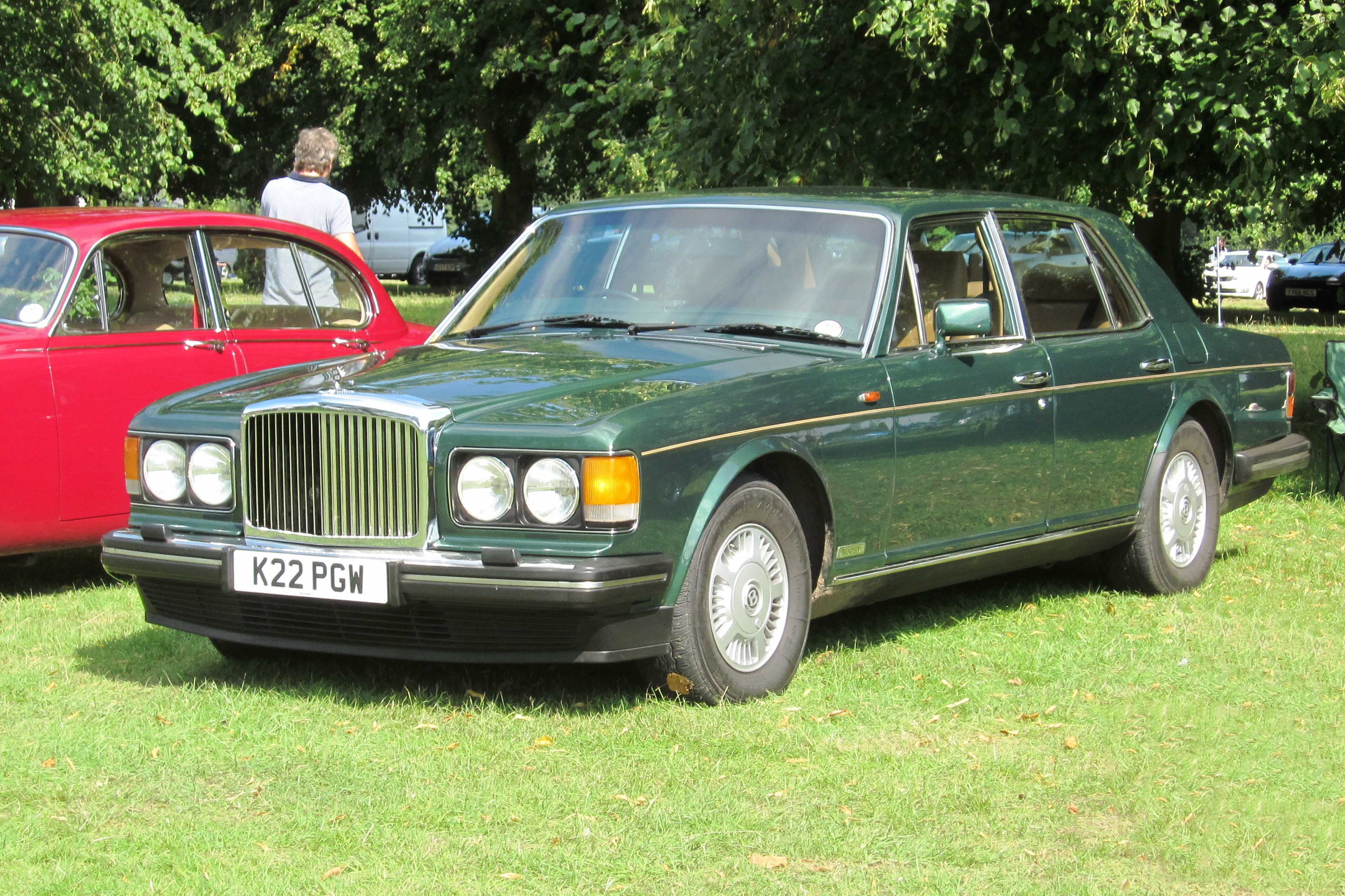 Bentley Mulsanne S (1992)